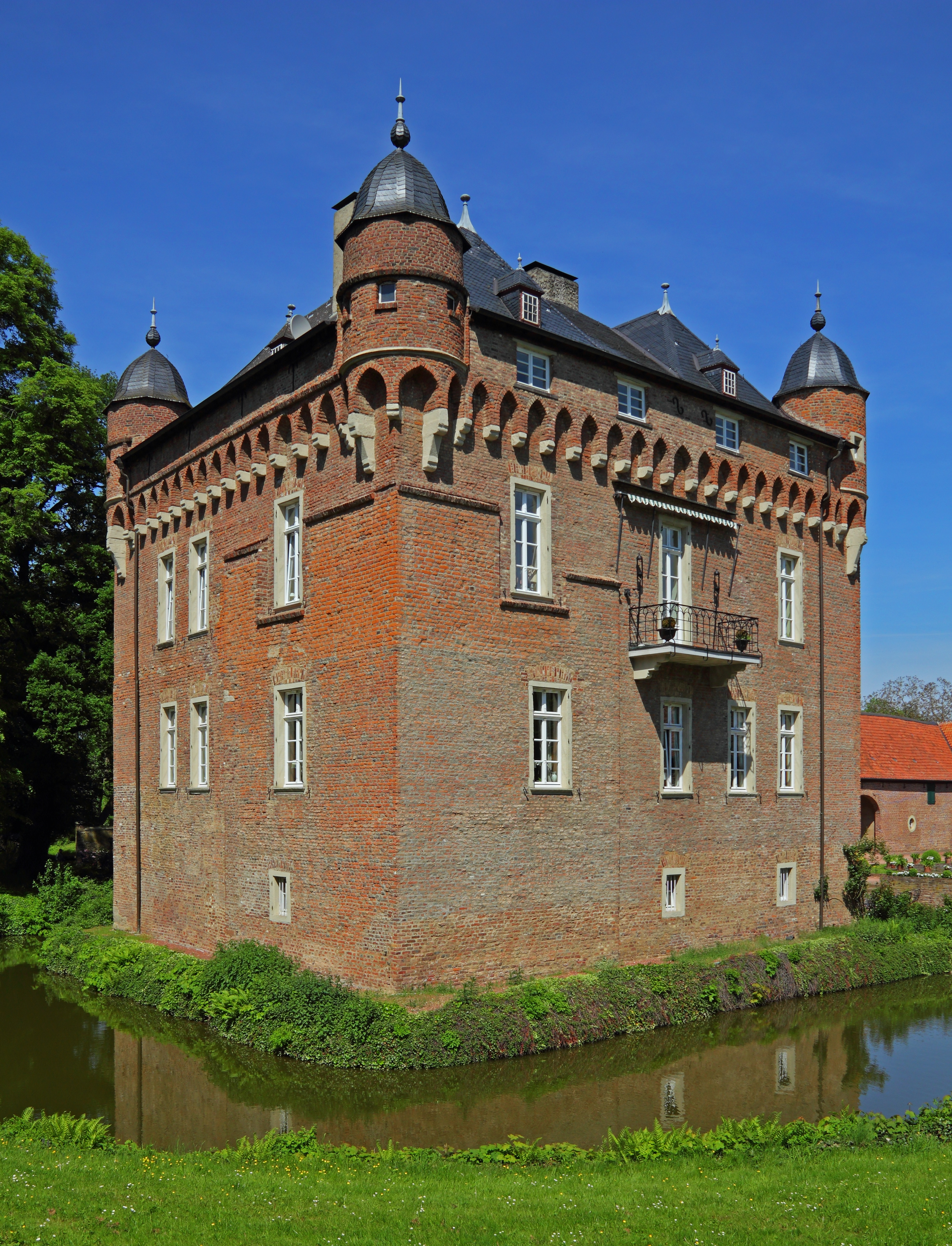 Loersfeld Castle in Kerpen. Former water castle, today a residential building.